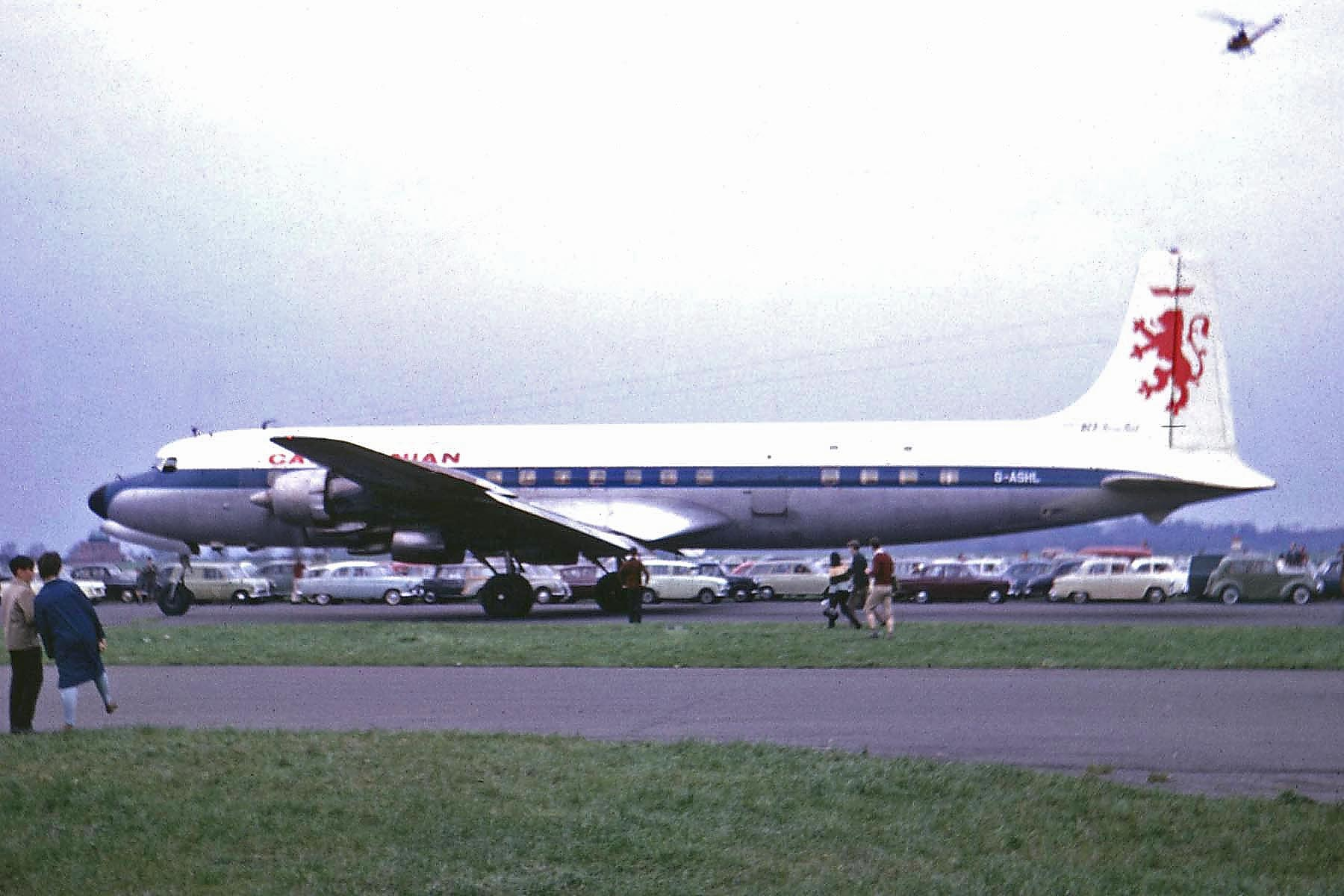 A picture of an airplane (name of it is on the file name).